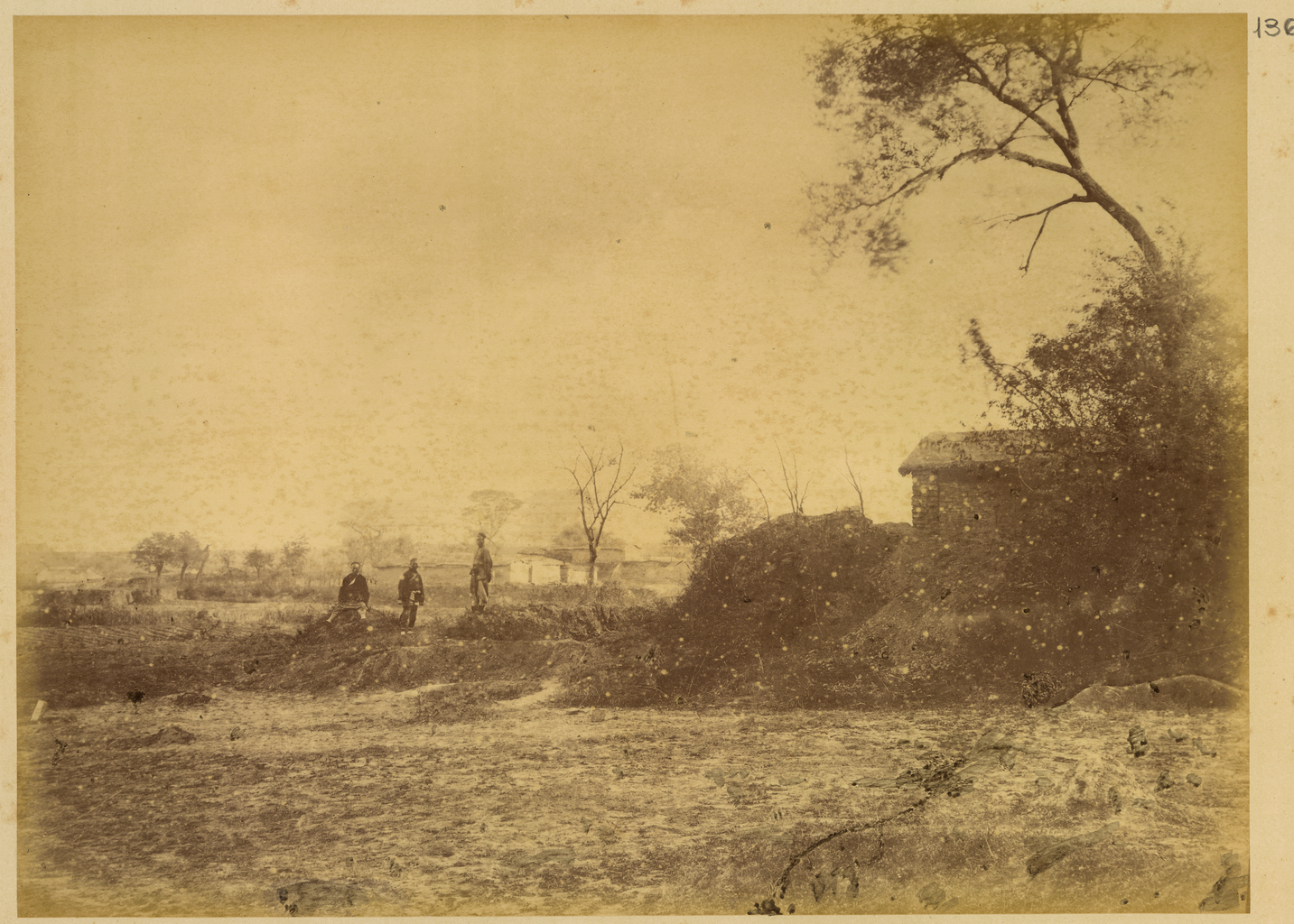 In 1874-75, the Russian government sent a research and trading mission to China to seek out new overland routes to the Chinese market, report on prospects for increased commerce and locations for consulates and factories, and gather information about the Dungan Revolt then raging in parts of western China. Led by Lieutenant Colonel Iulian A. Sosnovskii of the army General Staff, the nine-man mission included a topographer, Captain Matusovskii; a scientific officer, Dr. Pavel Iakovlevich Piasetskii; Chinese and Russian interpreters; three non-commissioned Cossack soldiers; and the mission photographer, Adolf Erazmovich Boiarskii. The mission proceeded from Saint Petersburg to Shanghai via Ulan Bator (Mongolia), Beijing, and Tianjin, and then followed a route along the Yangtze River, along the Great Silk Road through the Hami oasis, to Lake Zaysan, back to Russia. Boiarskii took some 200 photographs, which constitute a unique resource for the study of China in this period. Most of the photographs are included in this album, which later became part of the Thereza Christina Maria Collection assembled by Emperor Pedro II of Brazil and given by him to the National Library of Brazil. Buildings; Cemeteries; Gates; Memory of the World; Villages